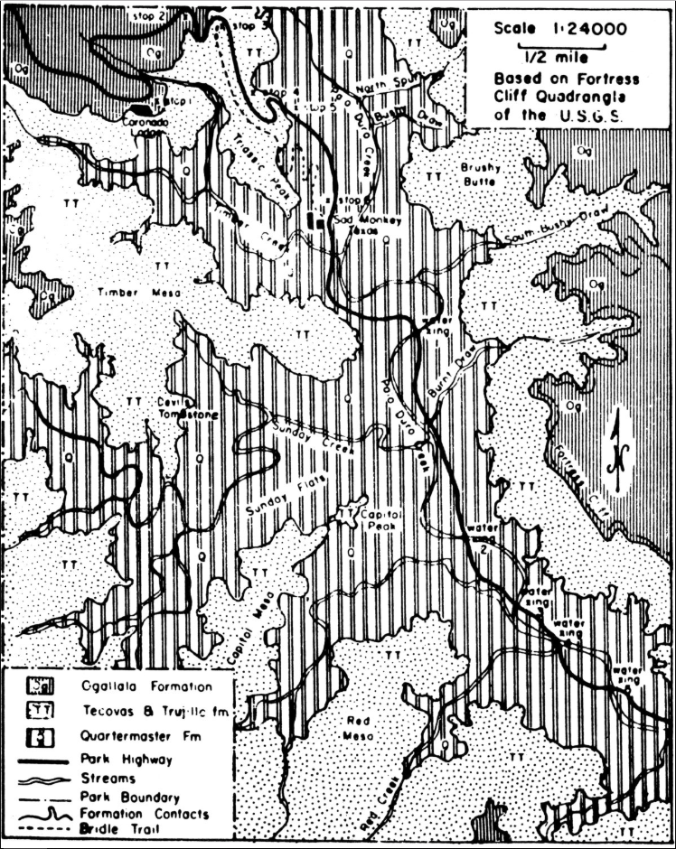 Palo Duro Canyon geologic map